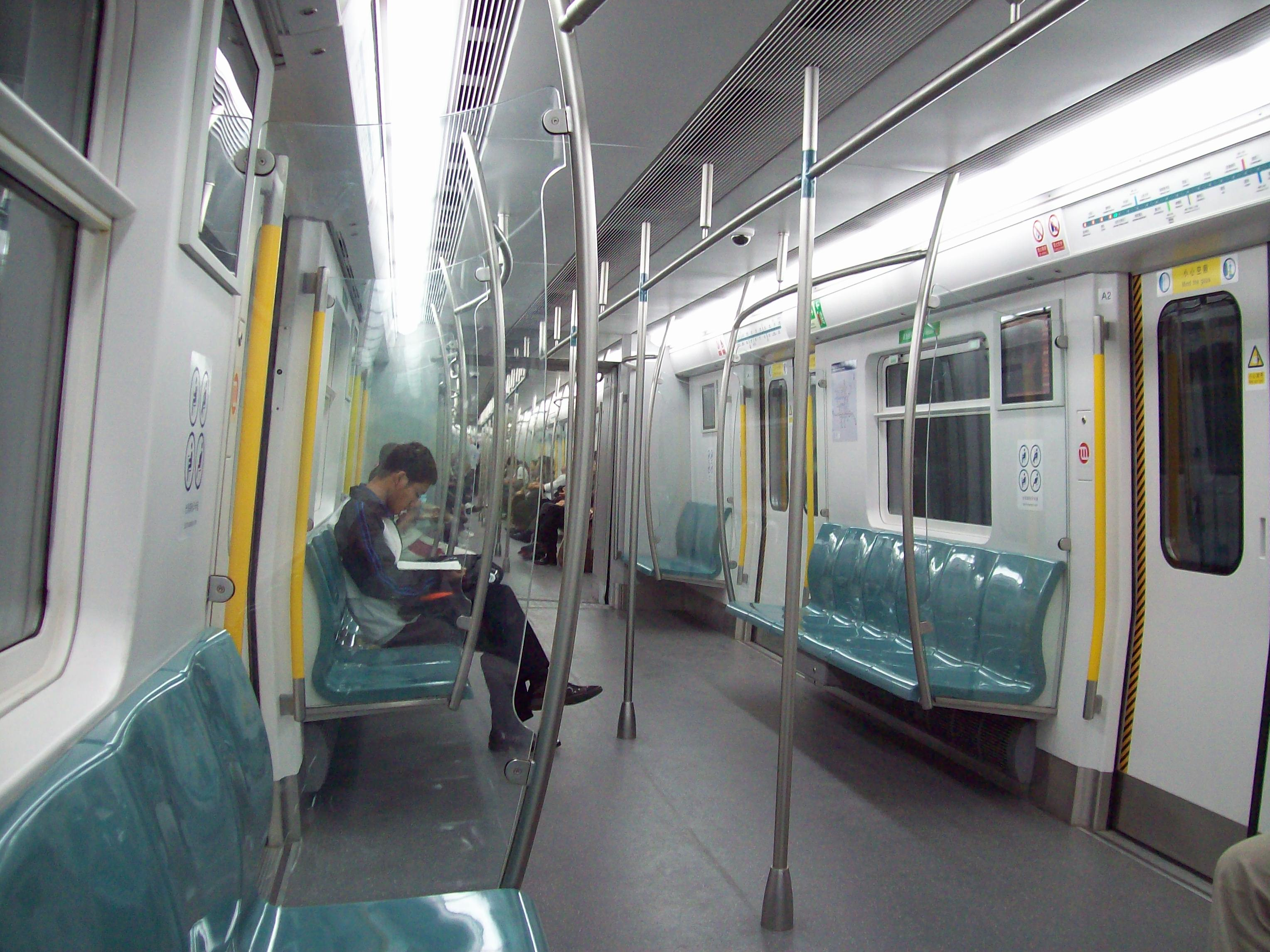 The train of Line 4, Beijing Subway. 中文（中国大陆）: 北京地铁4号线列车。